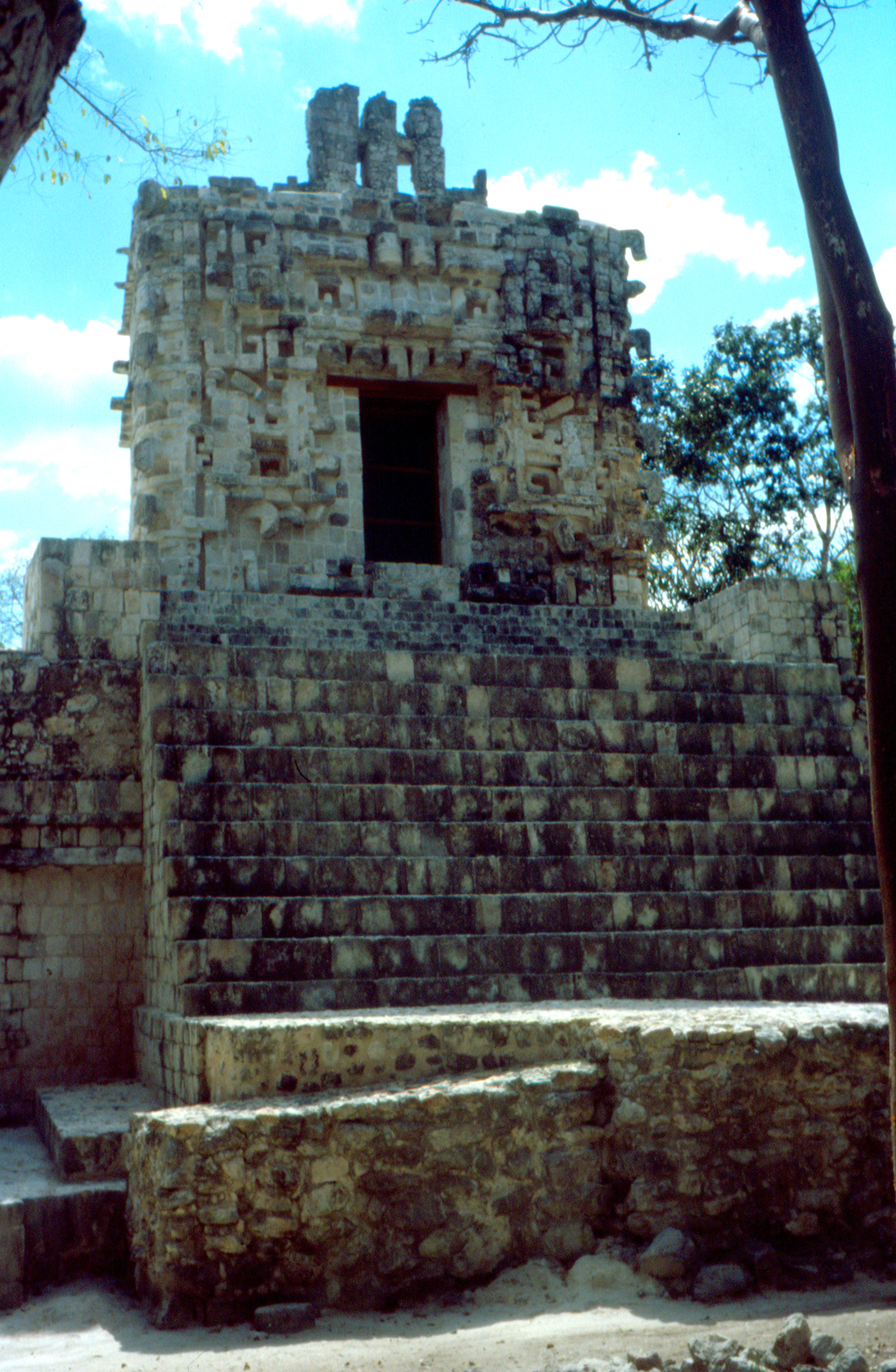 El Tabasqueño, Campeche, Mexico: Main building (after restoration)